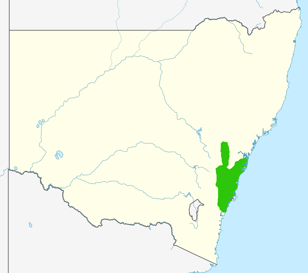 Distribution map of Isopogon anemonifolius (Salisb.) Knight, based on official New South Wales Herbarium records. Original map is File:Australia New South Wales location map blank.svg. Data is from NSW Herbarium Plantnet.